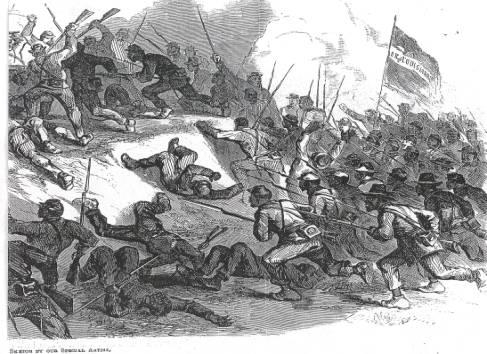 A depiction of the death of Andre Cailloux in battle. Cailloux can be seen with his sword raised. This portrayal places Cailloux and his men much closer to the Confederates than they were. From Frank Leslie's Journal, June 27, 1863